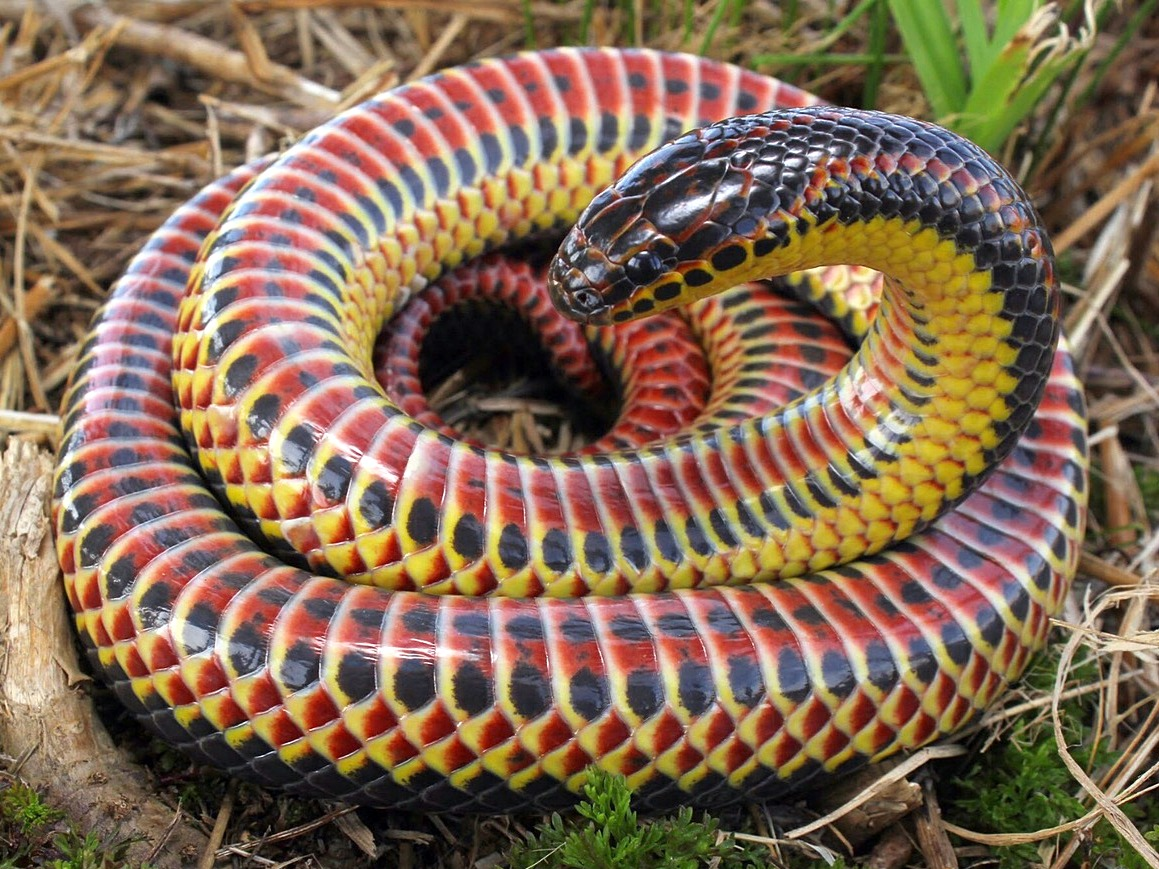 Farancia erytrogramma (rainbow snake) photographed in March of 2018 in North Carolina